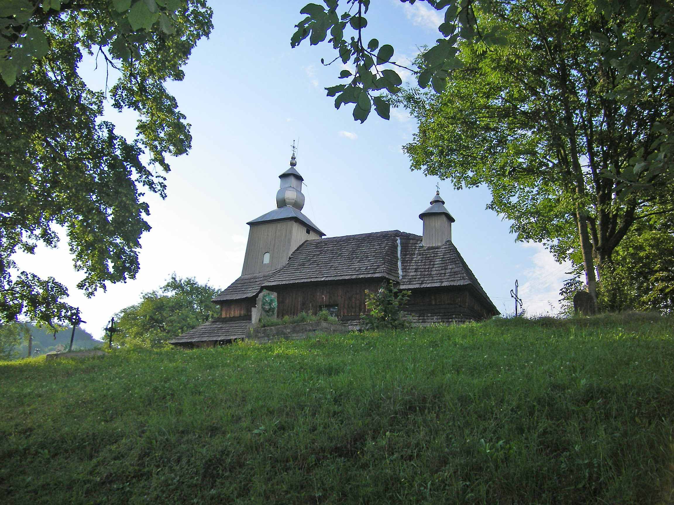 Sil, Wooden Church St. Basil the Great, Ukrainian orthodox church